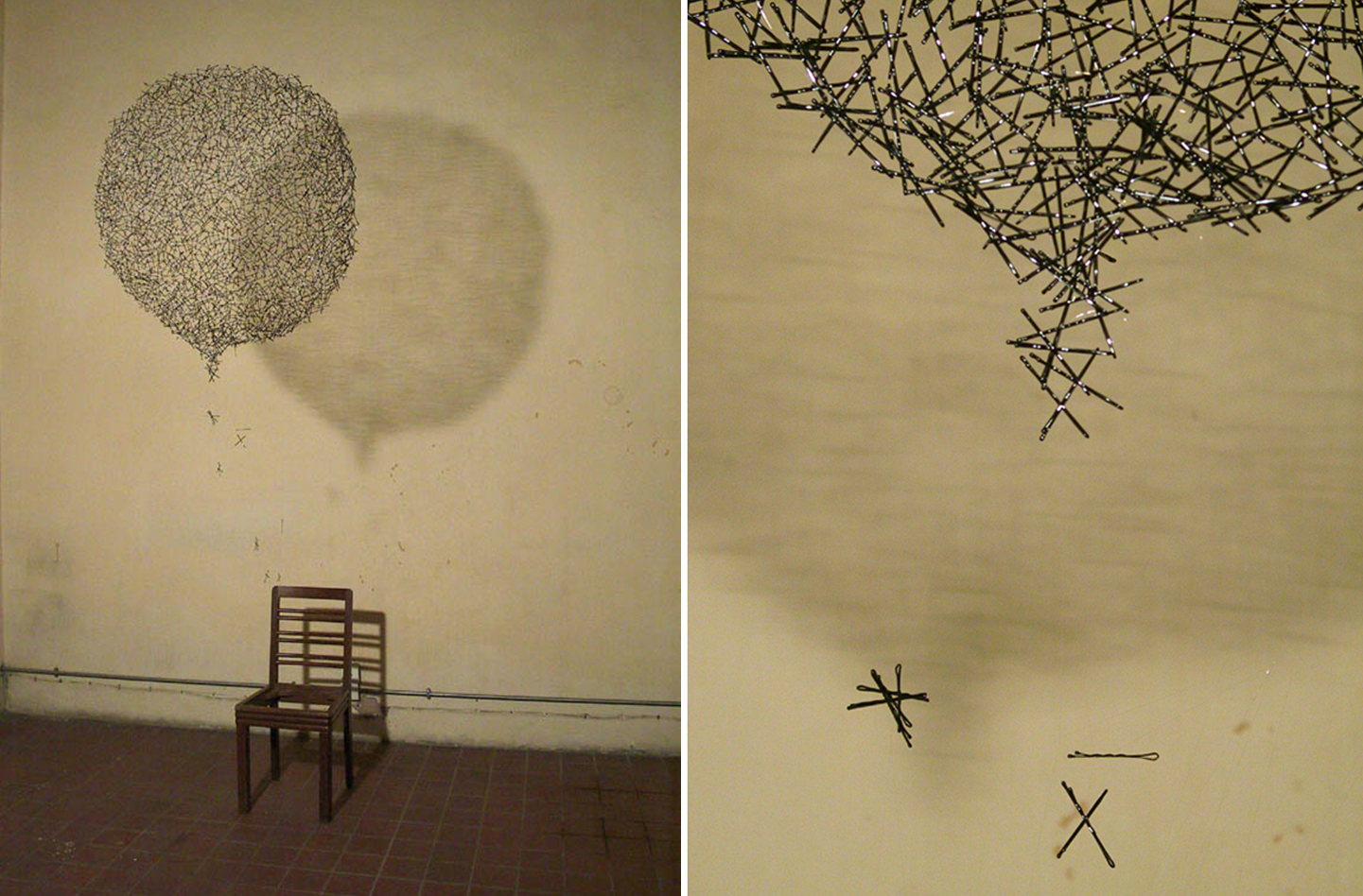 Artwork at Ladies' House, Macau